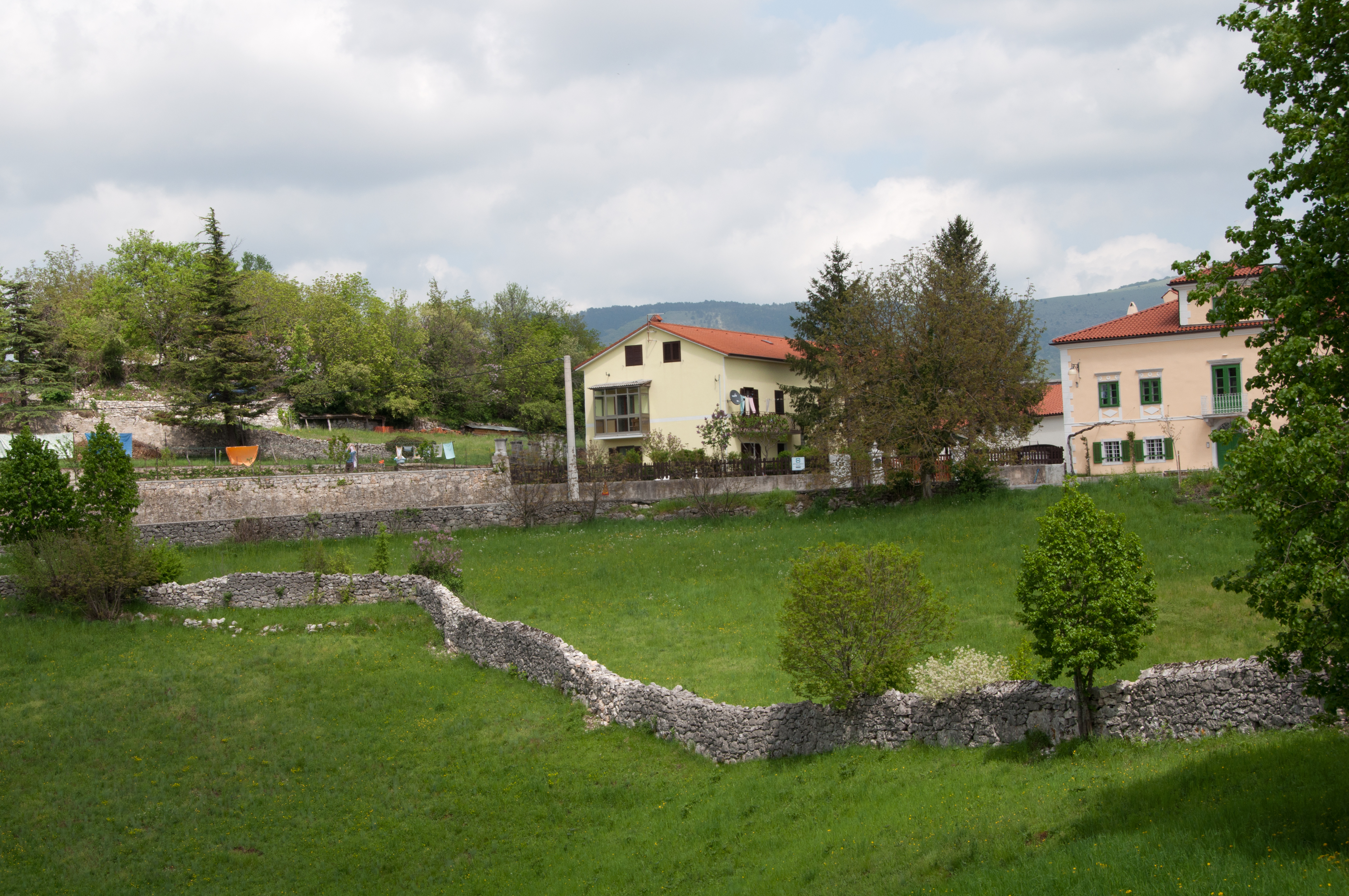 Matavun, by the Škocjan Caves